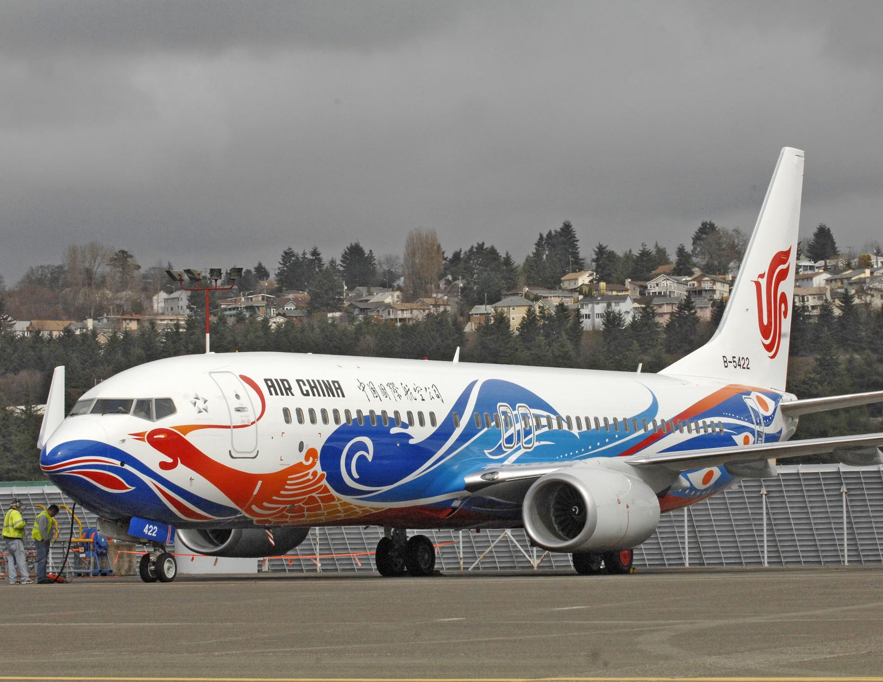 Air China YL921 2845 (BEJ) 737-800 Exteriors